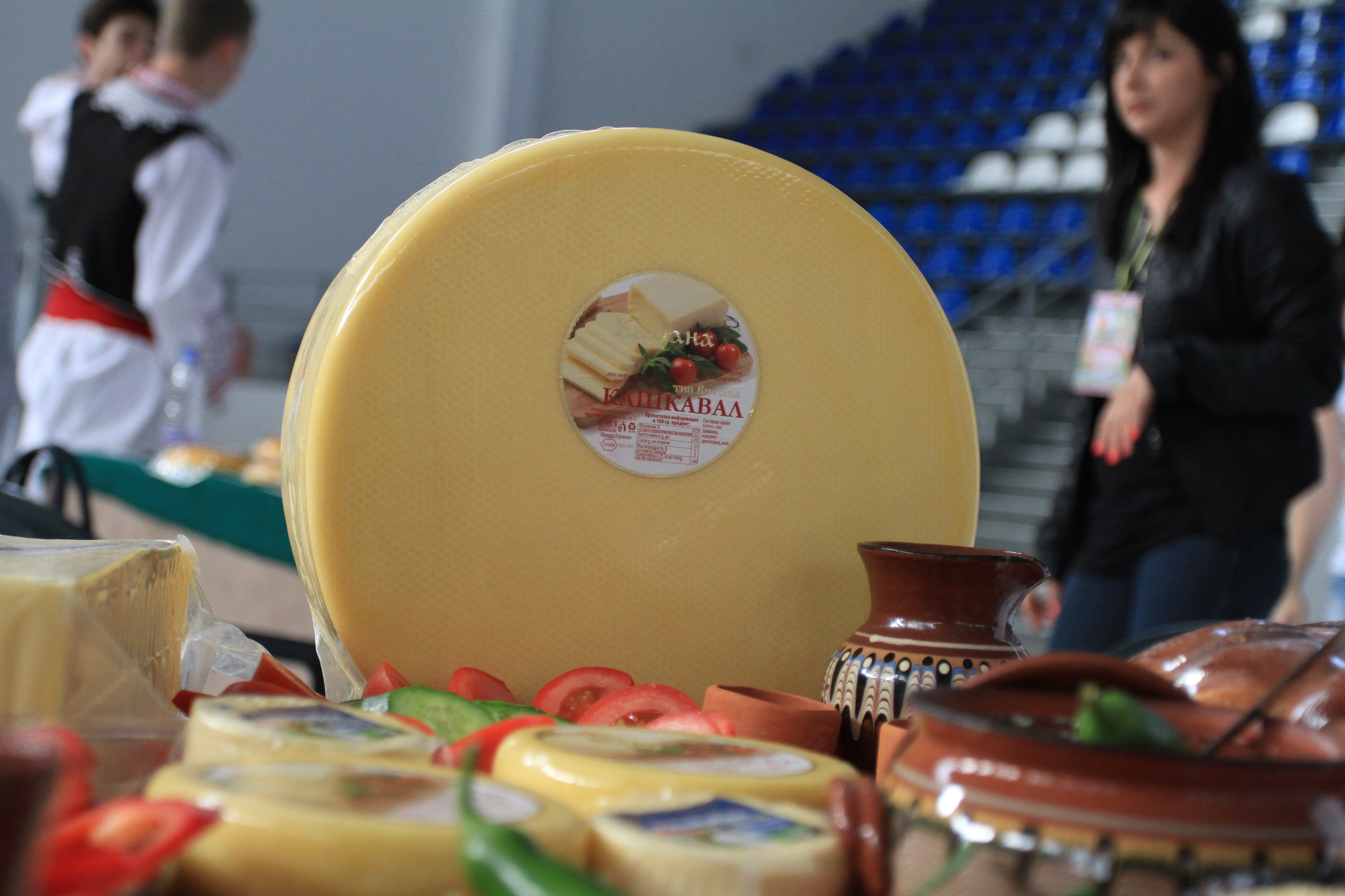 Traditional Bulgarian yellow cheese made from cow's milk This photo has been taken in the country: Bulgaria